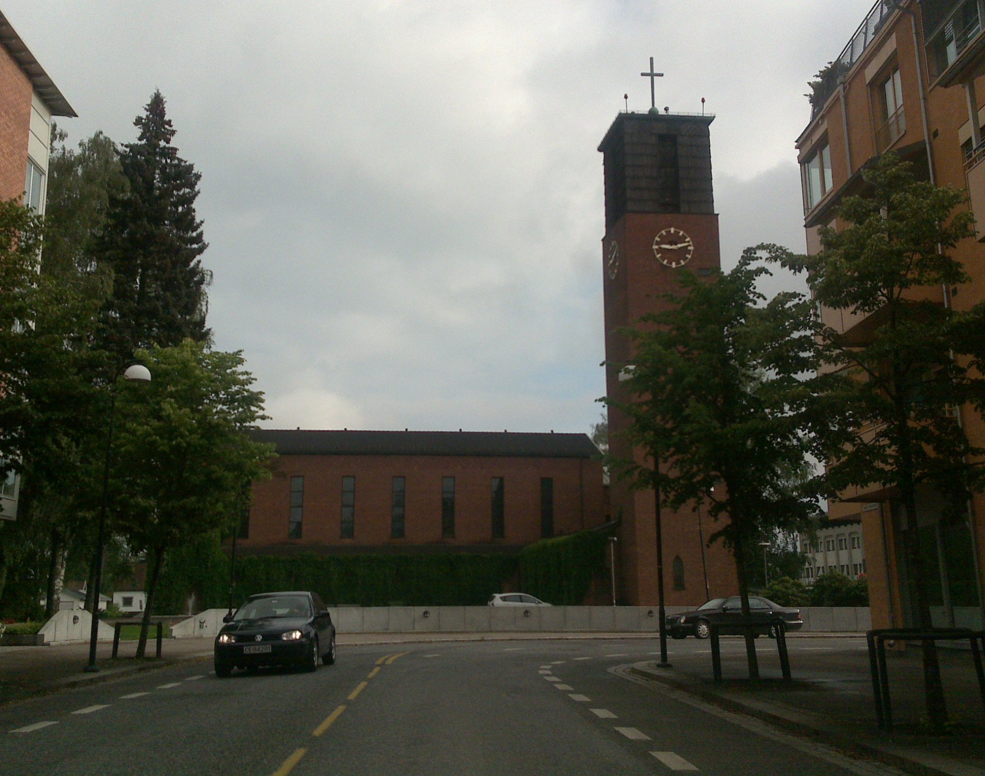 Lilleström Church, Skedsmo municipality, Norway